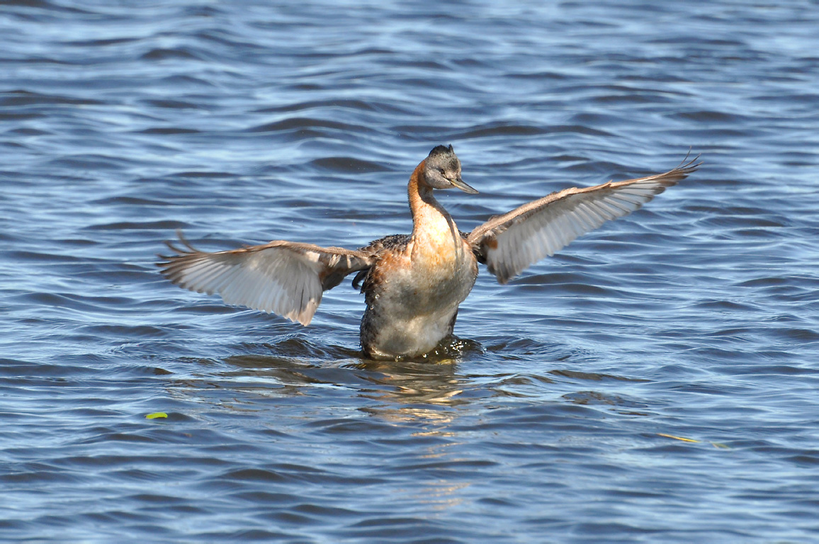 A Great Grebe in Santa Vitória do Palmar, Rio Grande do Sul, Brazil.